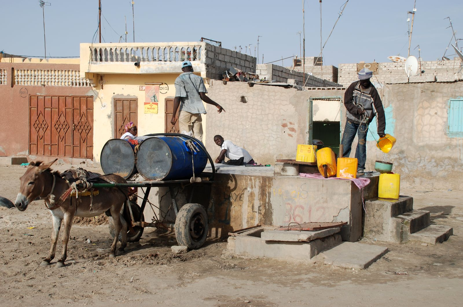 Nouakchott, Mauritania, Water distribution in Al Mina, 2 km west of town center